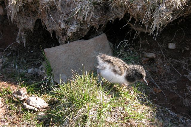 Young faroese Oystercatcher